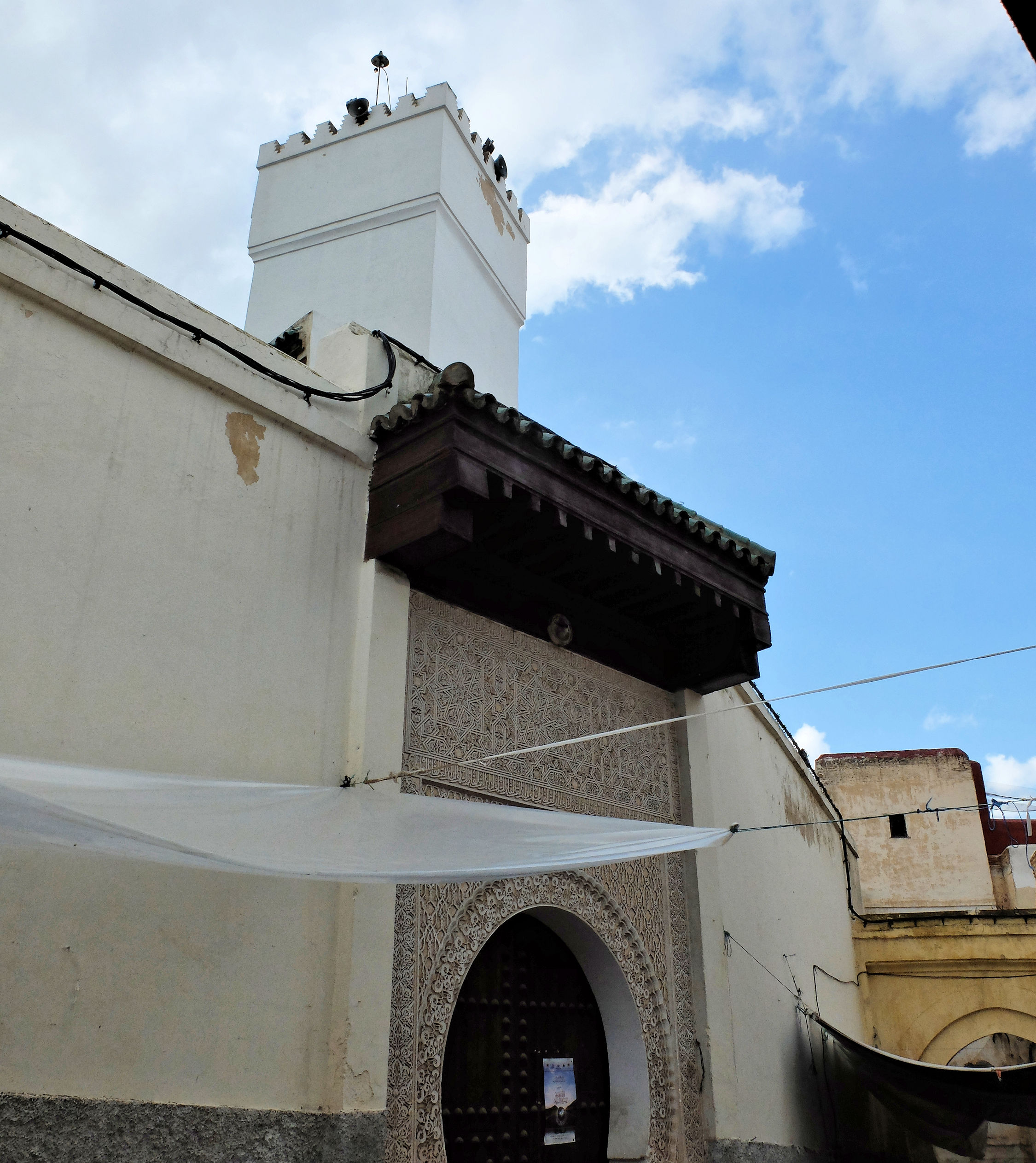 Mosque of the Andalusians, Fes. View of the eastern entrance portal and the minaret.